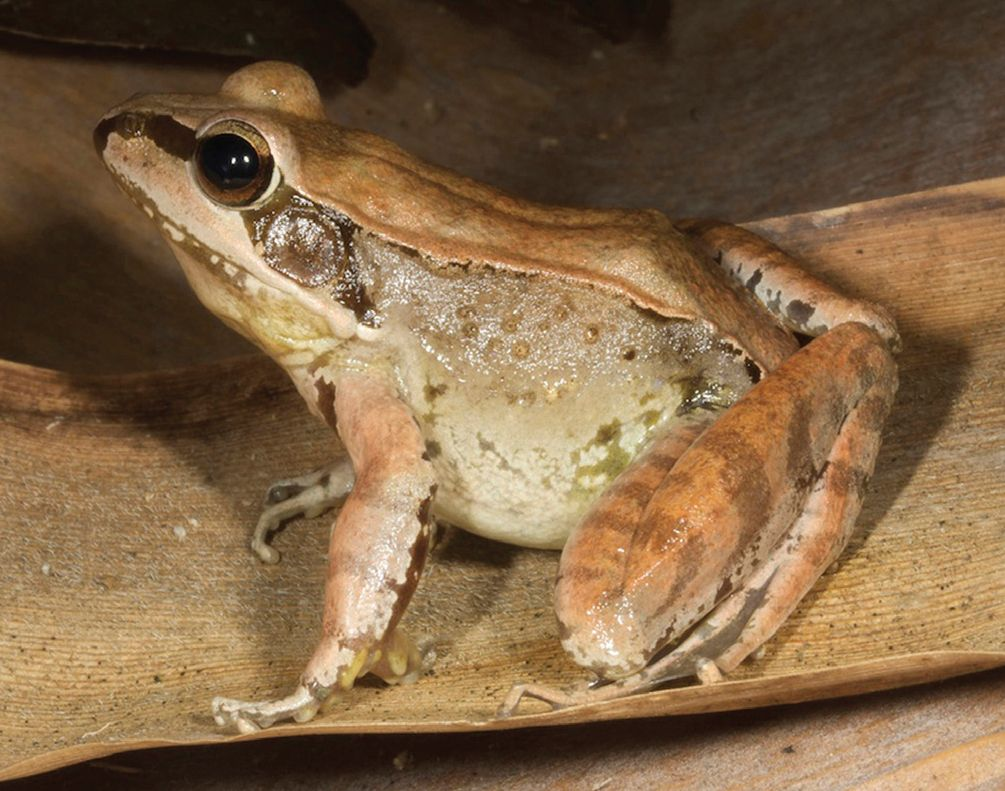 Limnonectes timorensis. Female from near Eraulo, Ermera District.